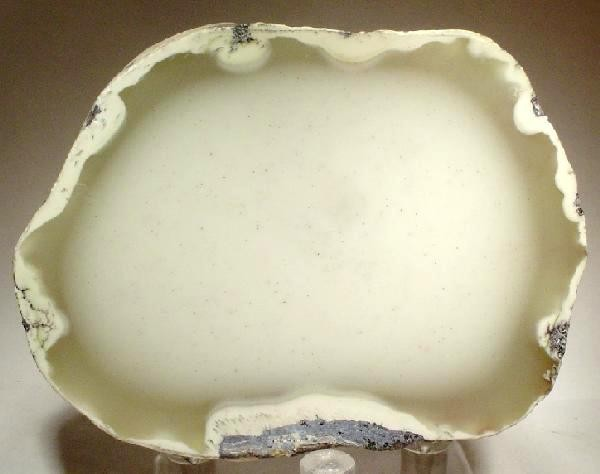 Datolite Locality: Keweenaw County, Michigan, USA (Locality at ) An excellent and showy, polished half-nodule of snow-white, porcelaneous datolite with specks of copper from Michigans famous Copper Country. This beautiful nodule is larger, than average, and more pure white than most. Together that makes it extremely desirable 7.8 x 6.0 x 2.9 cm